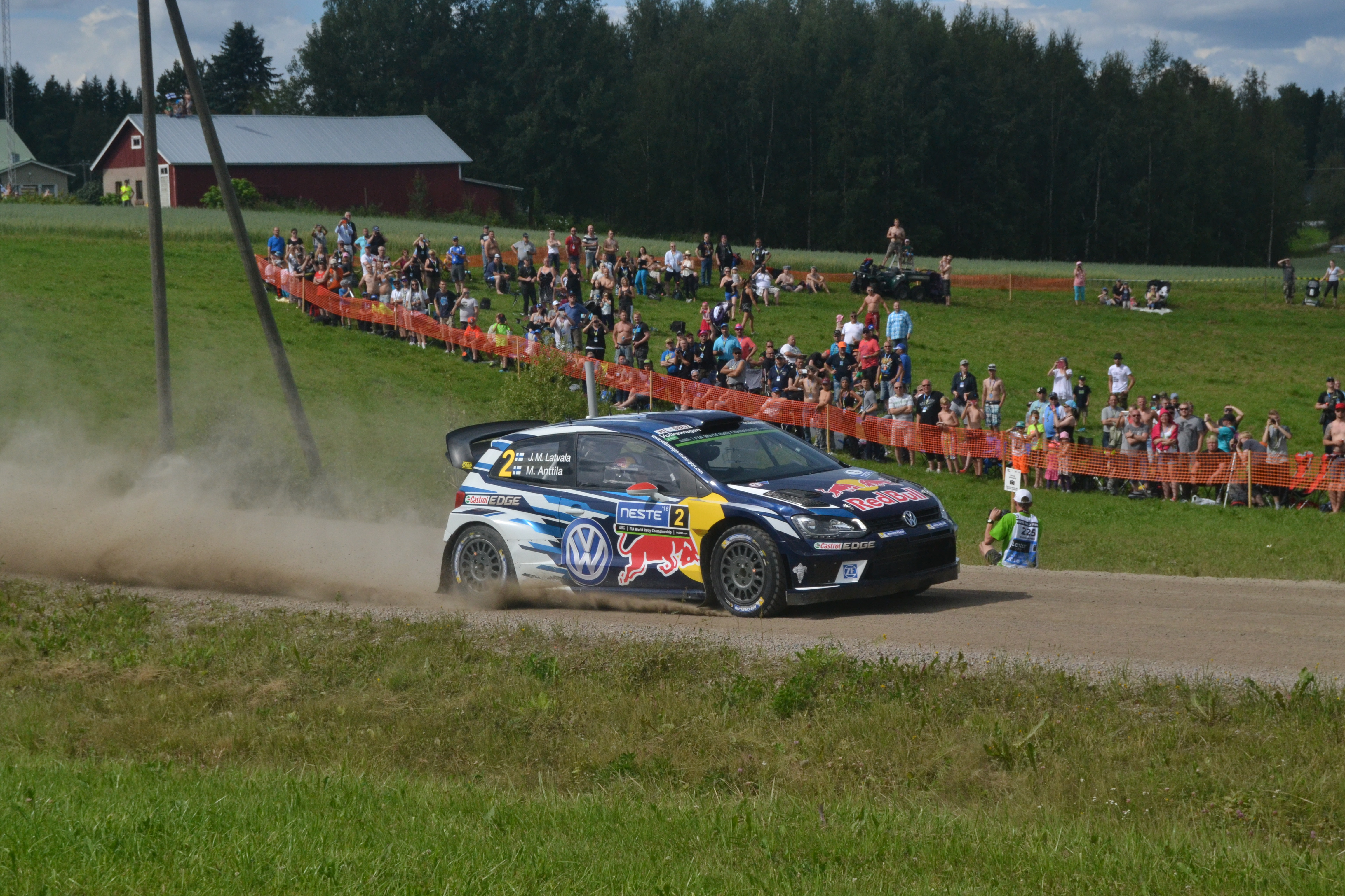 Jari-Matti Latvala at Äänekoski–Valtra stage at Rally Finland 2016